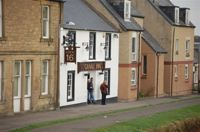 Canal Street Smokers outside a public house in Canal Street Camelon Falkirk.